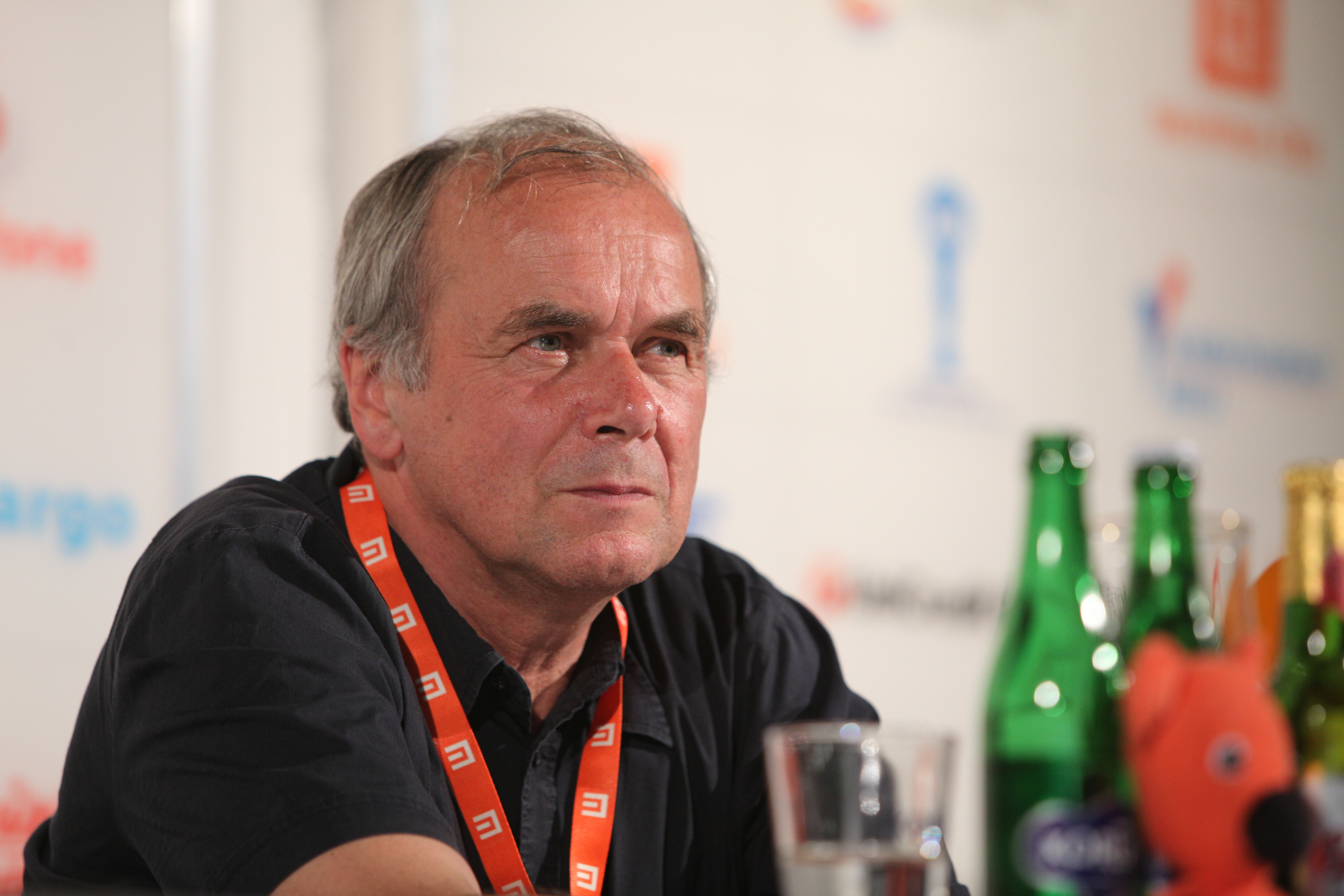 Czech cinematographer Vladimír Smutný at 2010 Karlovy Vary International Film Festival